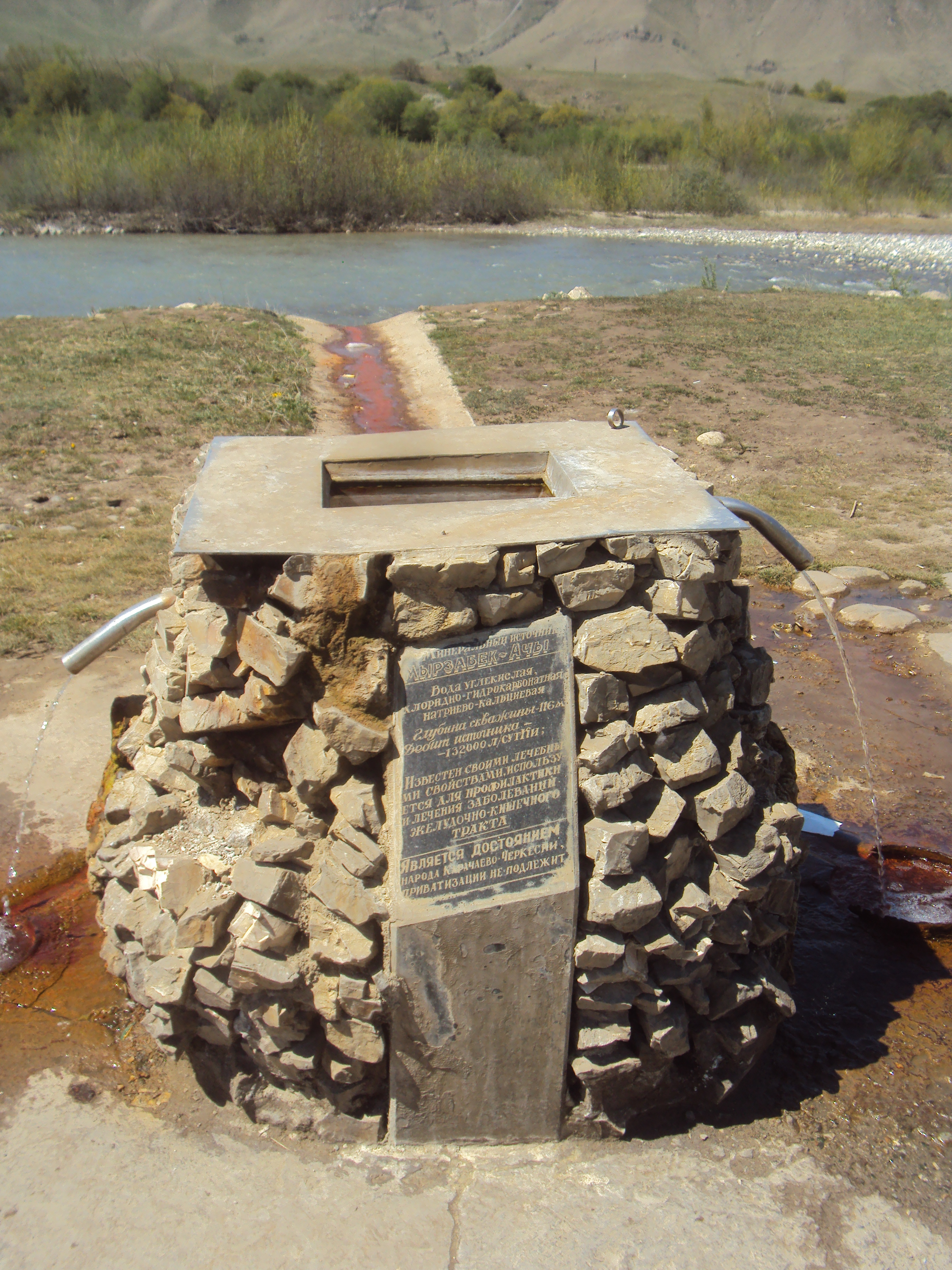 Krasnogorsk mineral spring